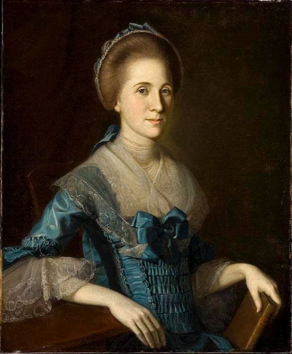 BMA 2003.69